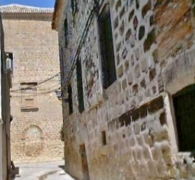 callejón